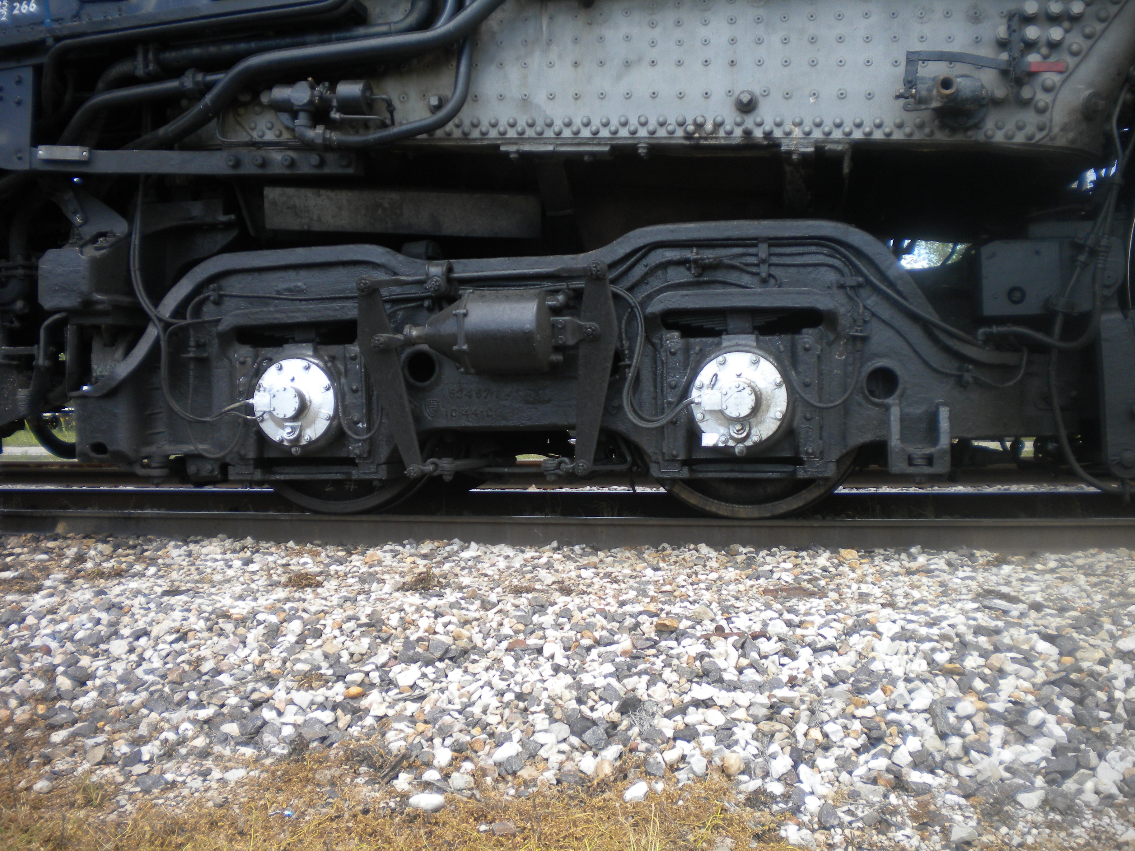 UP 844 at Hearne, Texas - Right side aft truck, and firebox.